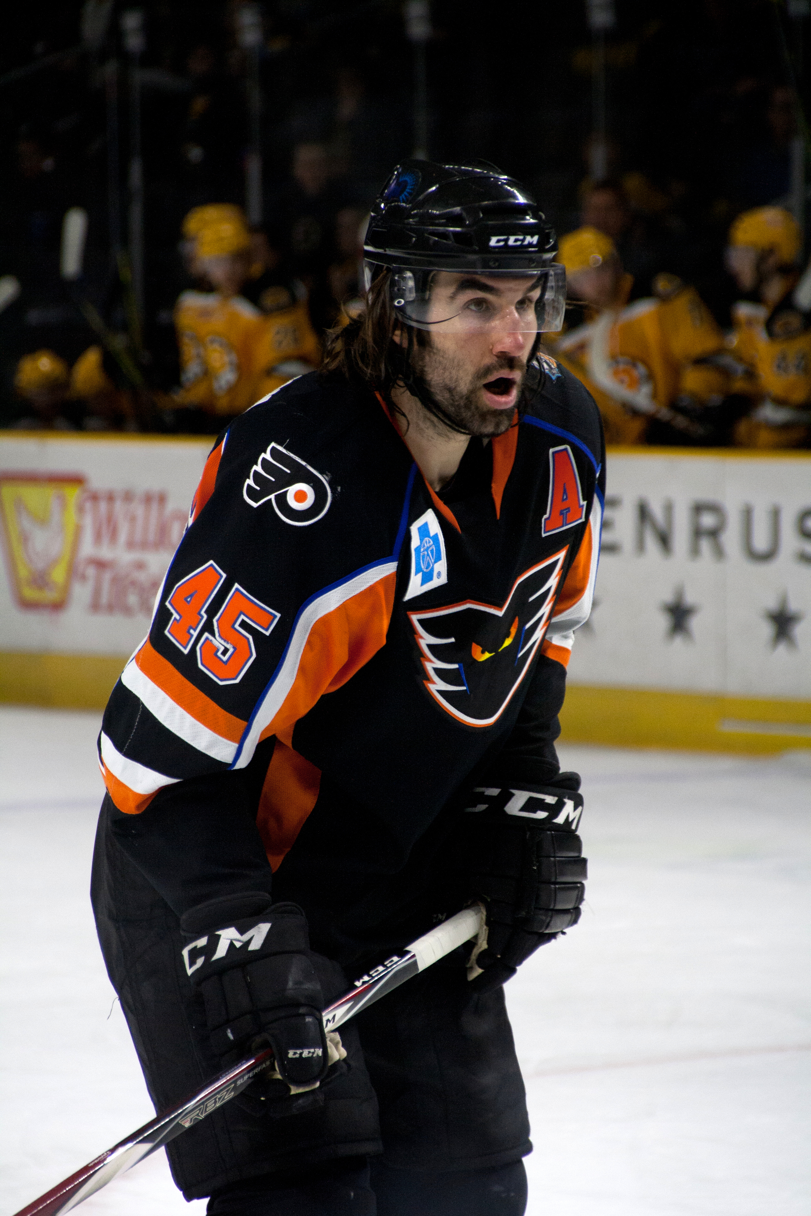 Zack Stortini with the Lehigh Valley Phantoms (2015)